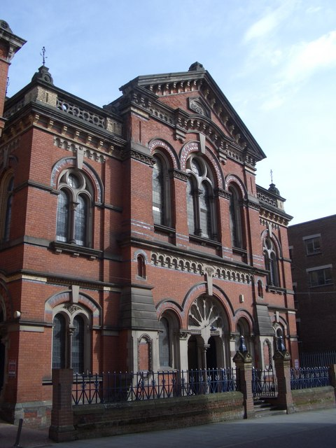 Castle Gate Chapel, Nottingham. SK5739 :: Castle Gate Chapel, Nottingham, near to Nottingham, Great Britain